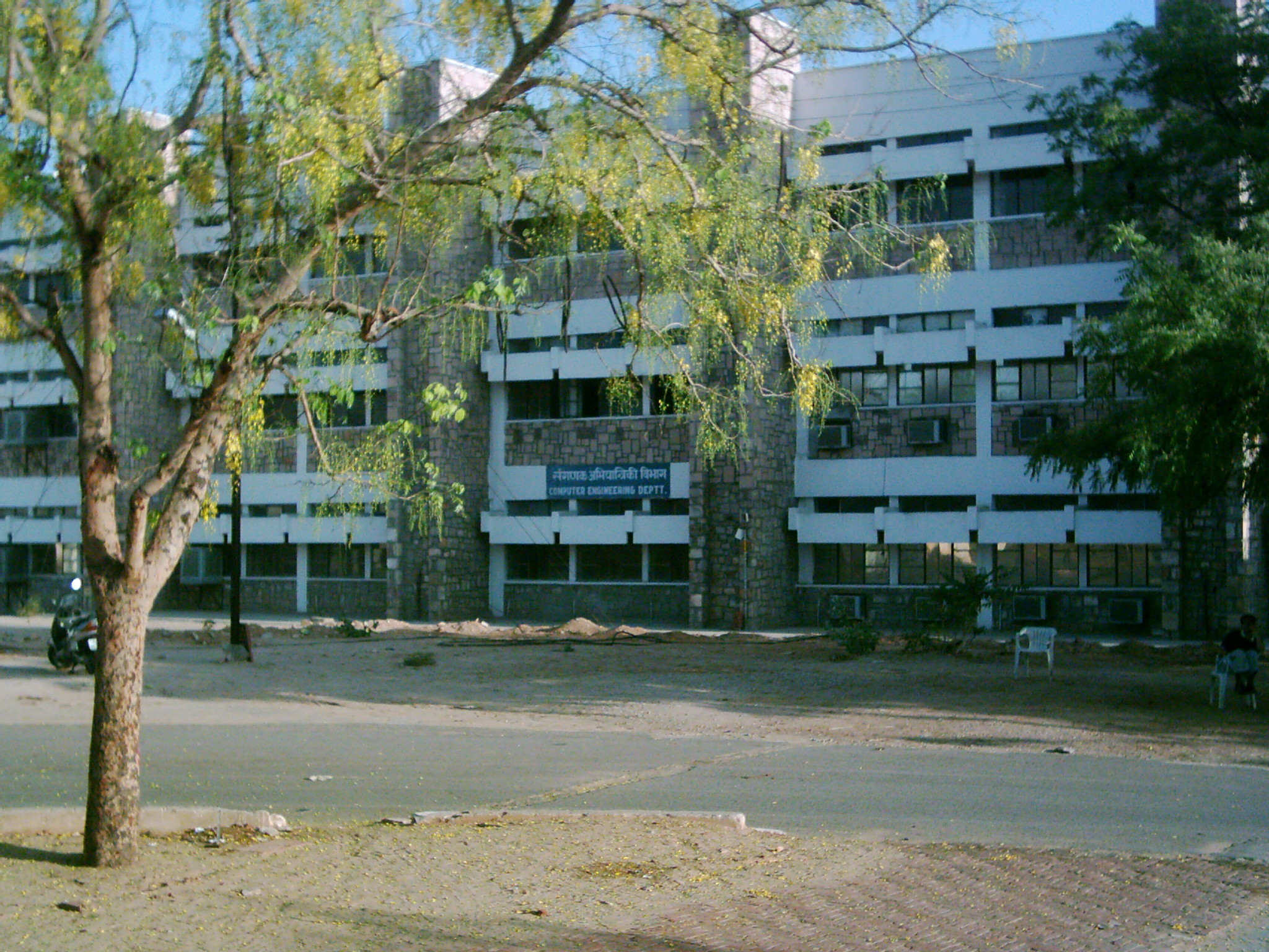 Computer Engineering department at MNIT, Jaipur